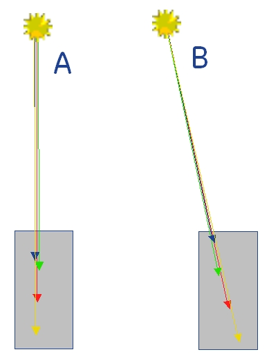 graphic, explaining the effect of oblique scintillation hitting the crystal